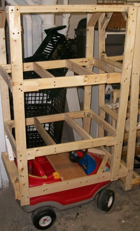 A handyman project involved making inexpensive movable shelves to organize a cluttered basement. A discarded toy vehicle was used as the bottom portion for shelves. The recycling protects the environment and gives new use to plastic. And movable shelves make it easier for a homeowner to organize stuff. Source of picture: here (see public domain declaration at top of article). Questions: Write to my Wikipedia page or email me at